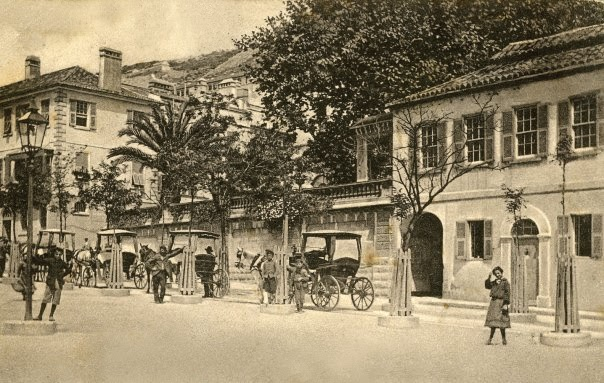 Garrison Library hidden